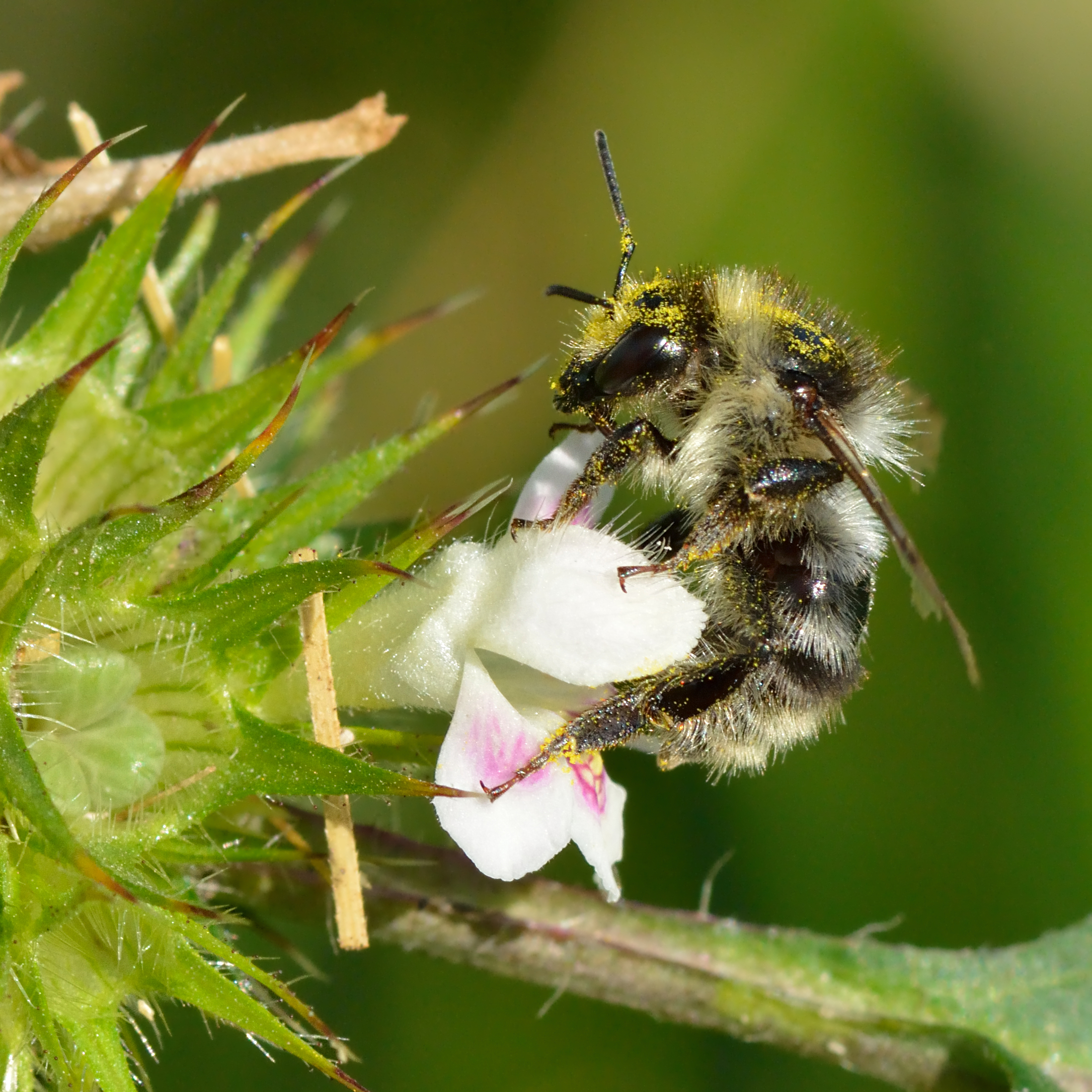 Sand bumblebee (Bombus veteranus) on the common hemp-nettle (Galeopsis tetrahit). Keila, Northwestern Estonia.